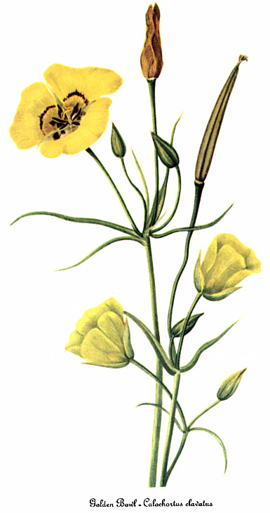 Watercolor painting of Calochortus_clavatus.